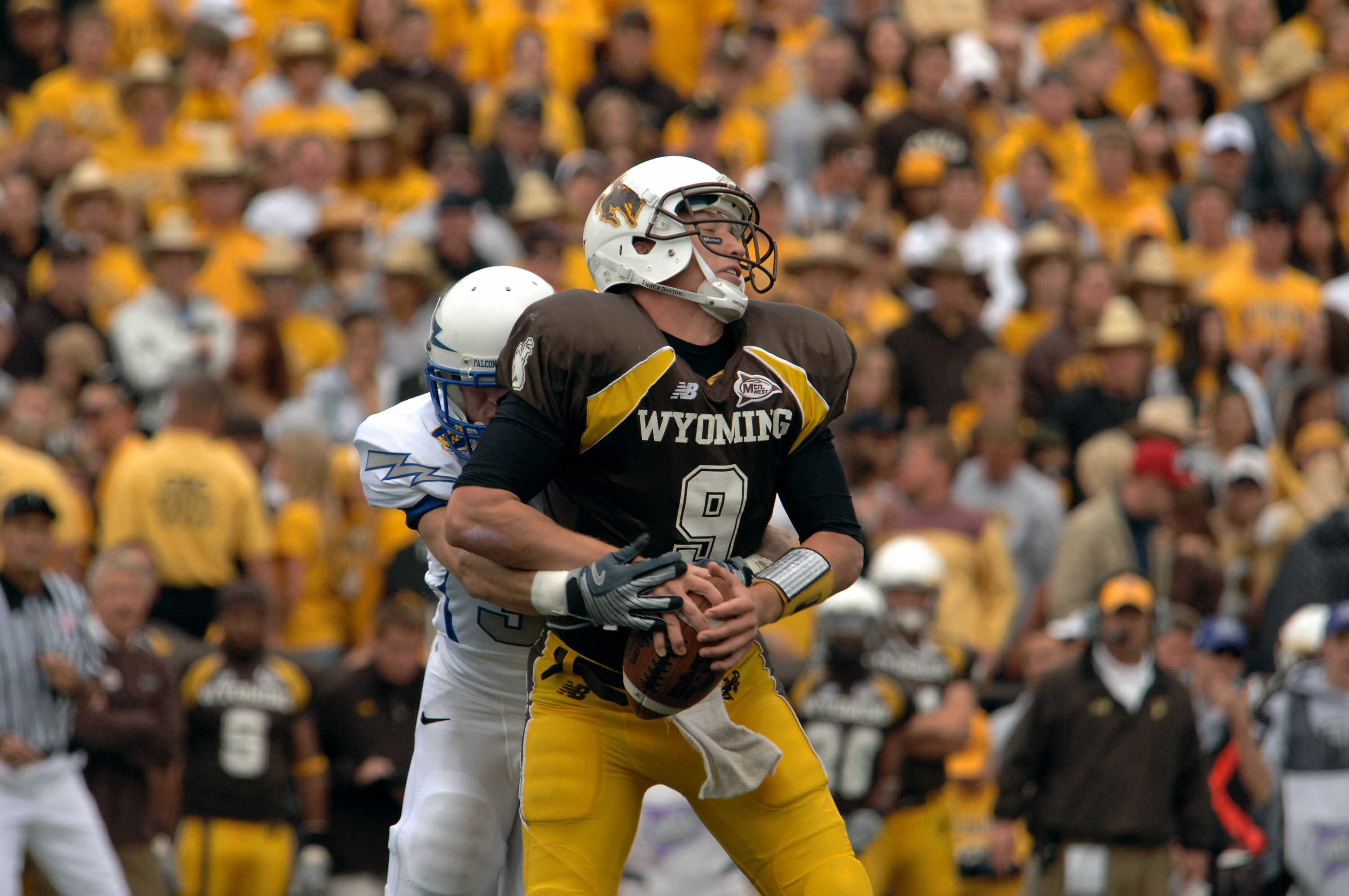 U.S. Air Force Academy strong safety Chris Thomas puts Wyoming quarterback Dax Crum in a bearhug and forced Wyoming's first fumble of the game Sept. 6 in Laramie, Wyo.